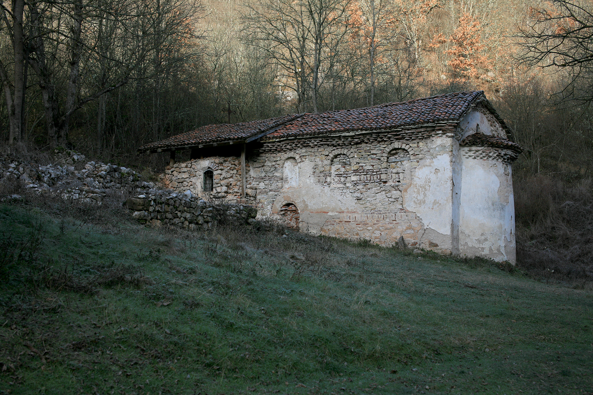 Mislovstichki Monastery, Bulgaria